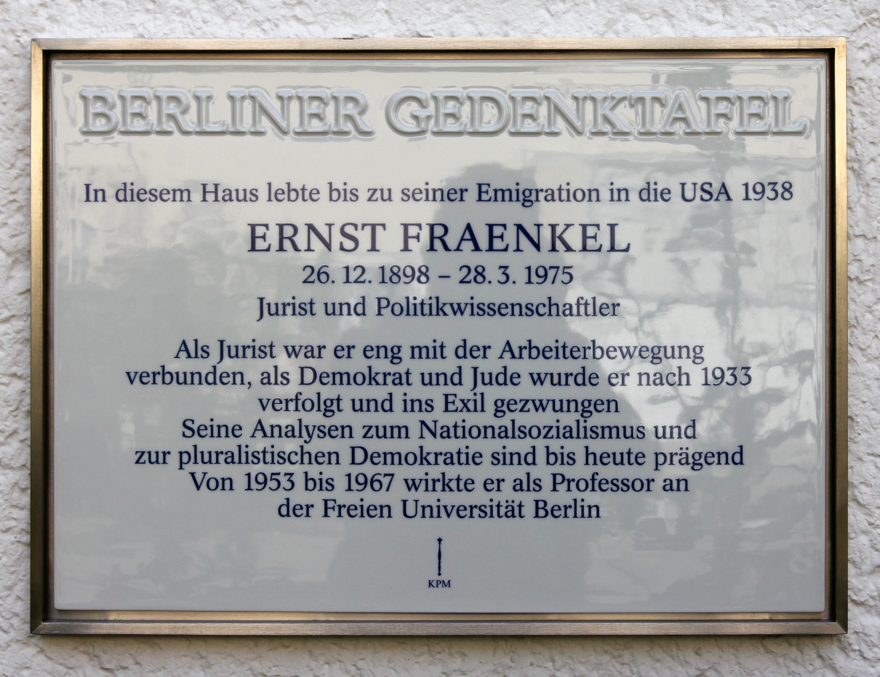 Berlin memorial plaque, Ernst Fraenkel, Eschwegering 23, Berlin-Tempelhof, Germany